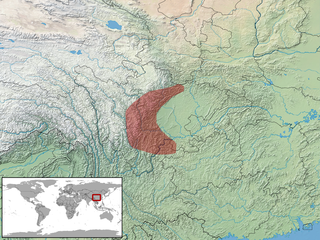 geographic distributioon of Achalinus meiguensis (Native: China (Sichuan, Yunnan))